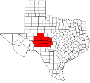 Map of Texas highlighting counties served by the Concho Valley Council of Governments; created by User:Acntx.